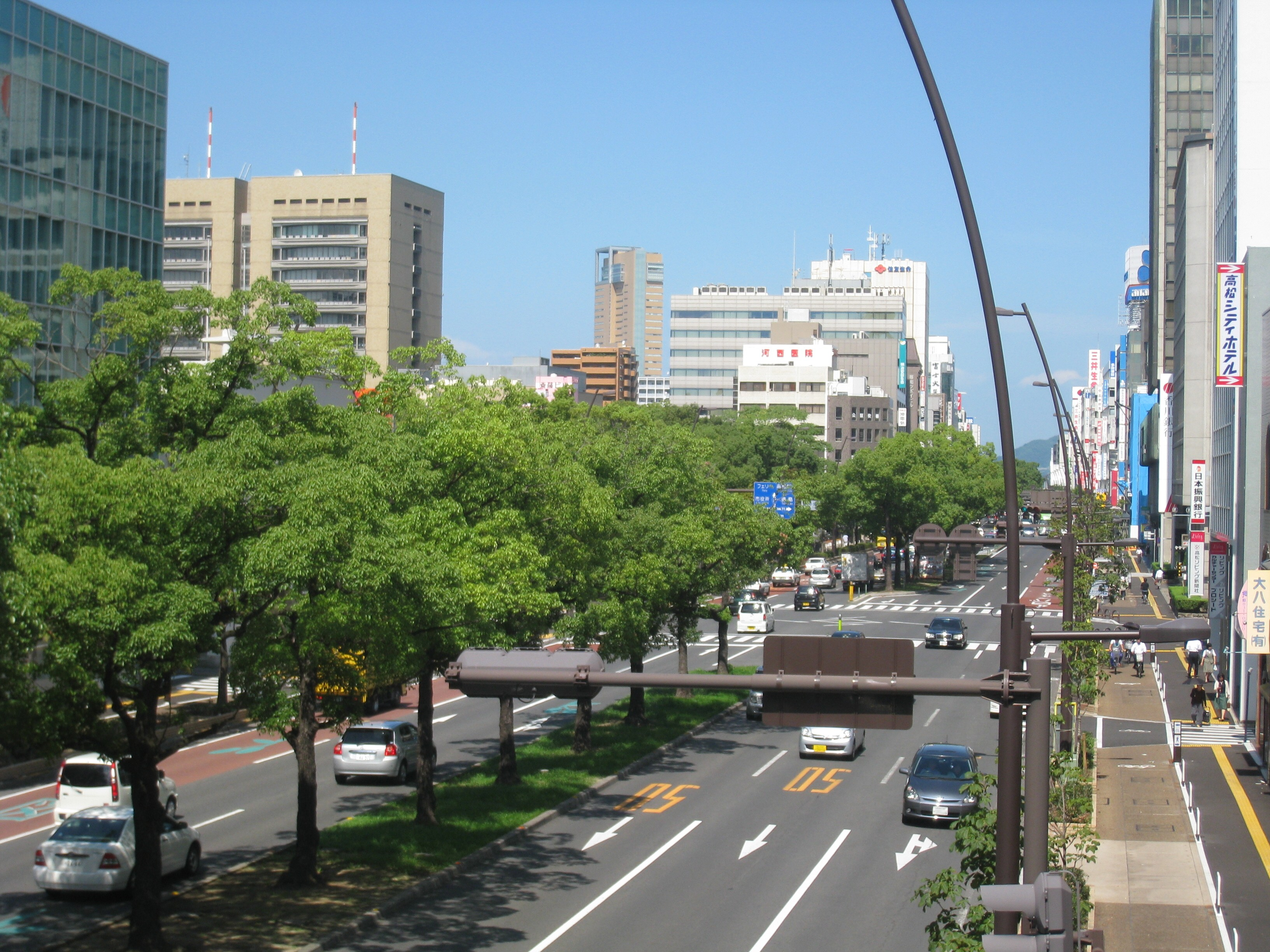 Takamatsu Chuo-dori in Tenjinmae view north